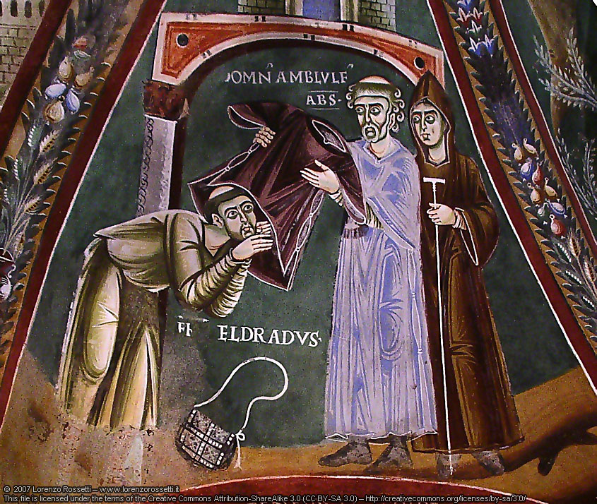 Saint Eldradus, painting from the abbey of Novalesa, Italy (11th century)